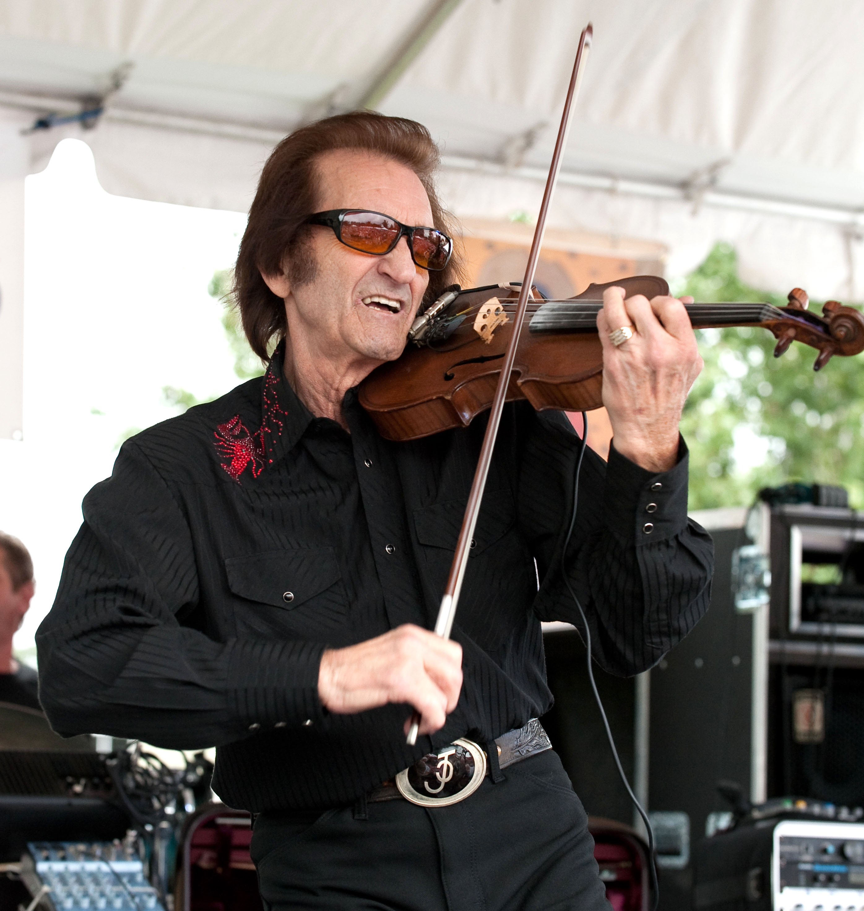 Doug Kershaw playing the fiddle at the 2009 Festivals Acadiens et Créoles Français cadien: Doug Kershaw est après jouer du violon à Les Festivals Acadiens et Créoles, 2009.